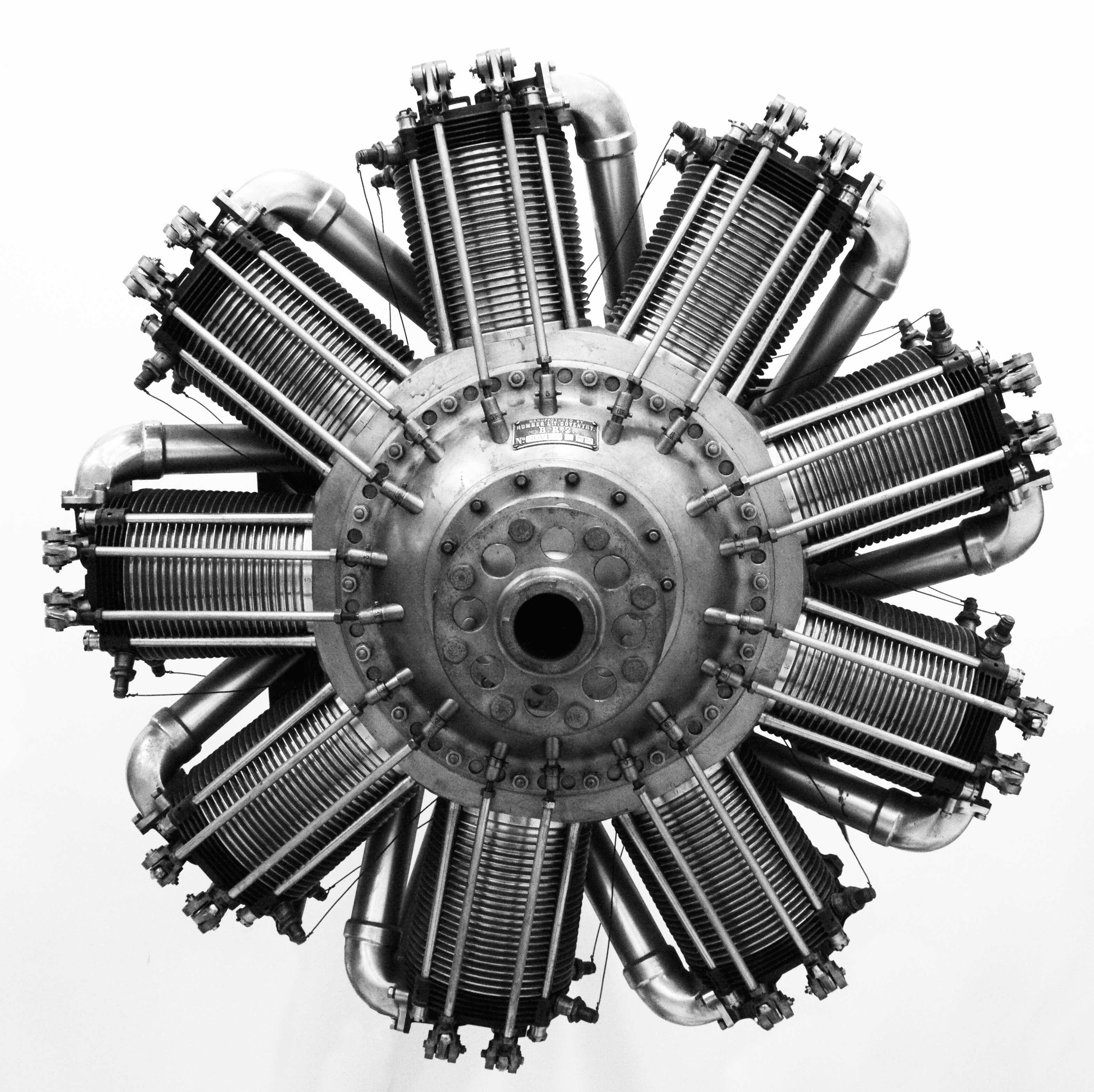 Rotary Engine